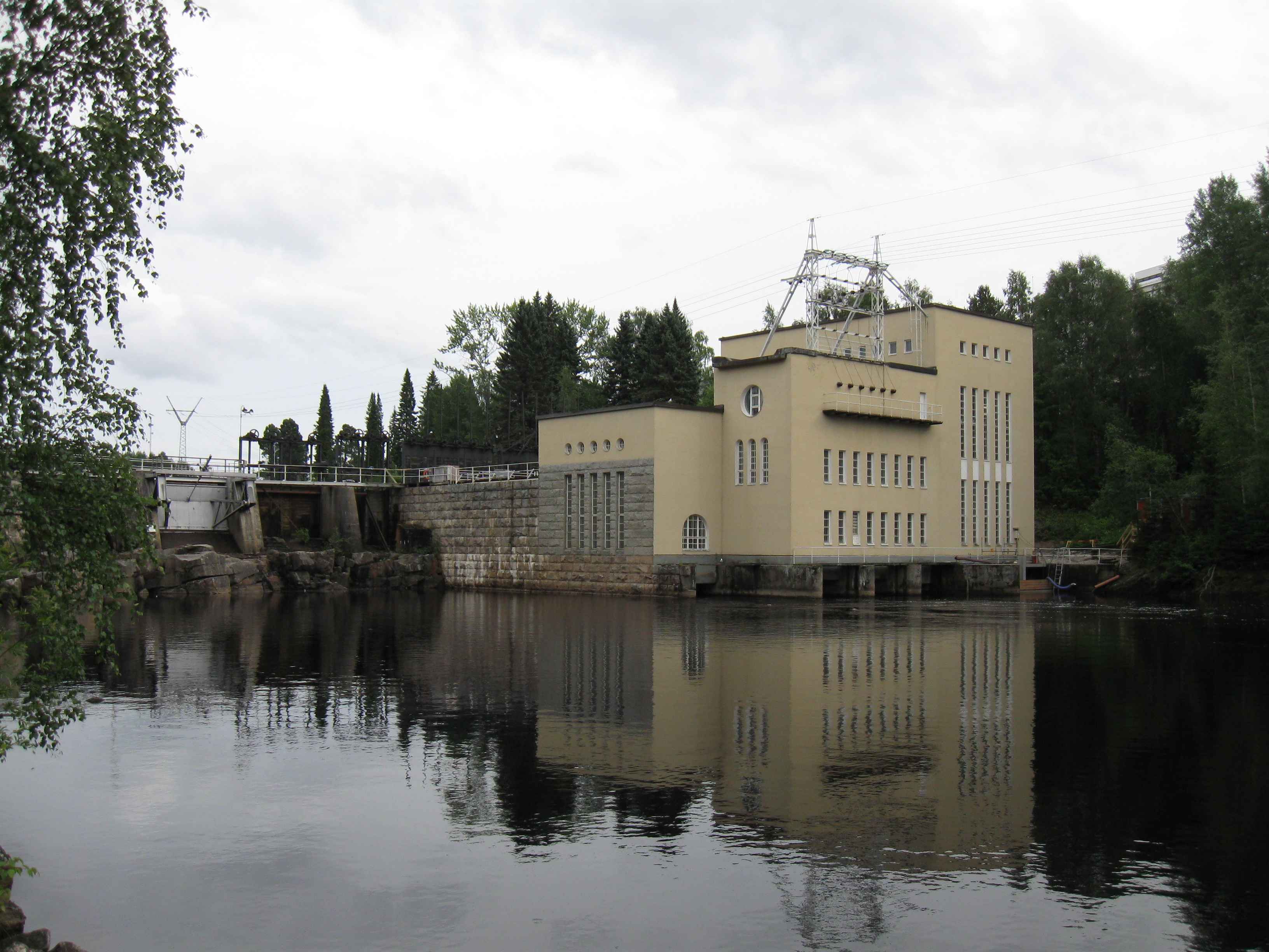 The Ämmäkoski power plant at Kajaaninjoki river in Kajaani, Finland.